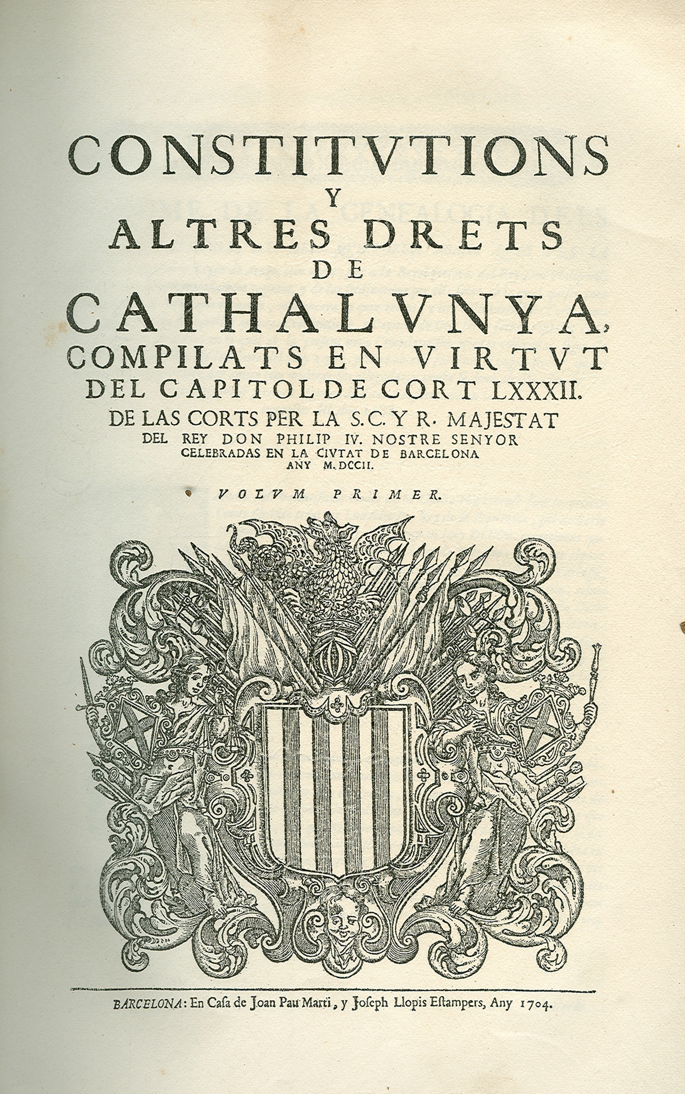 Catalan Constitutions 1st Volume, 1702.